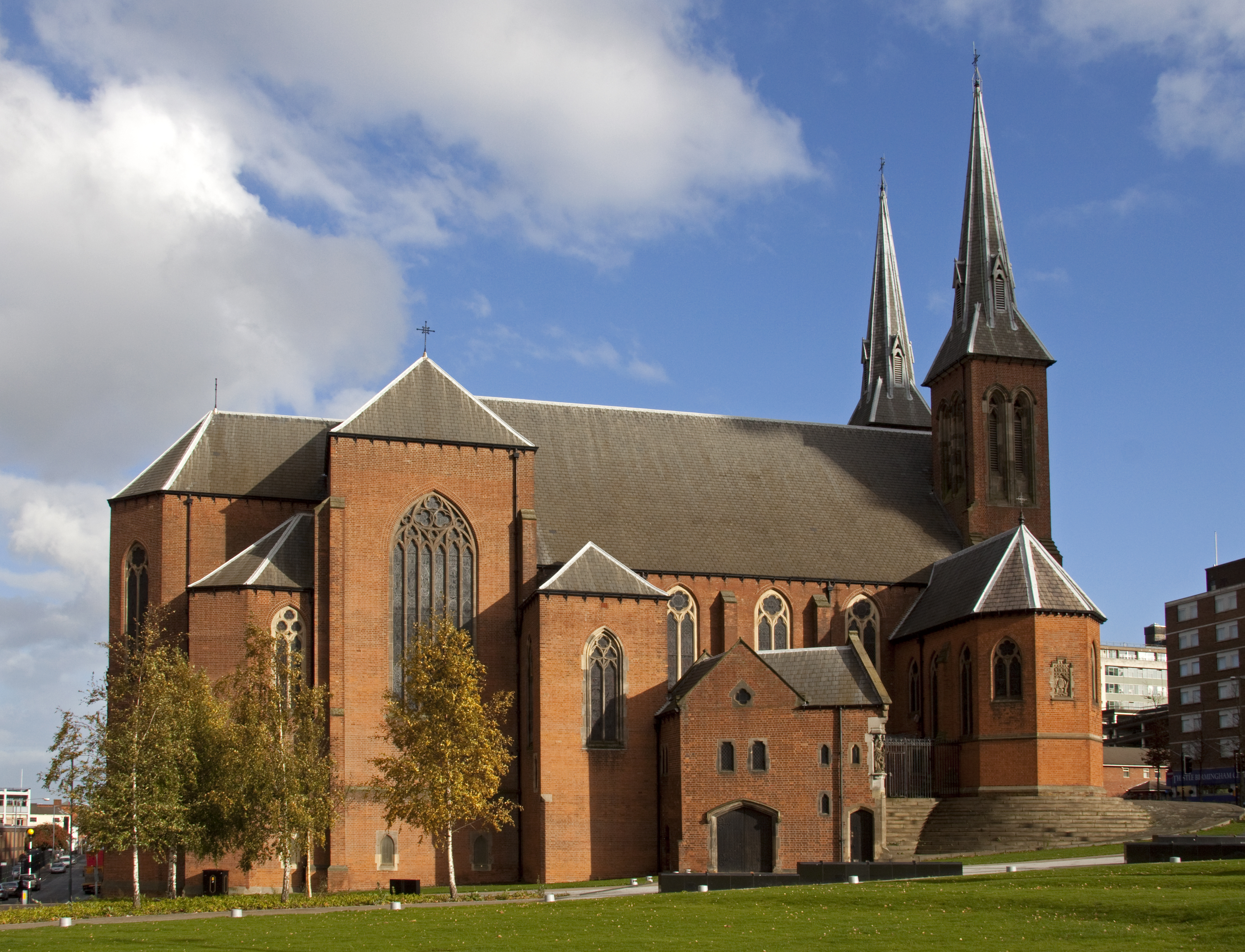 Roman Catholic Cathedral Church of St.Chad, built between 1839 and 1841. Designed by by Augustus Welby Northmore Pugin